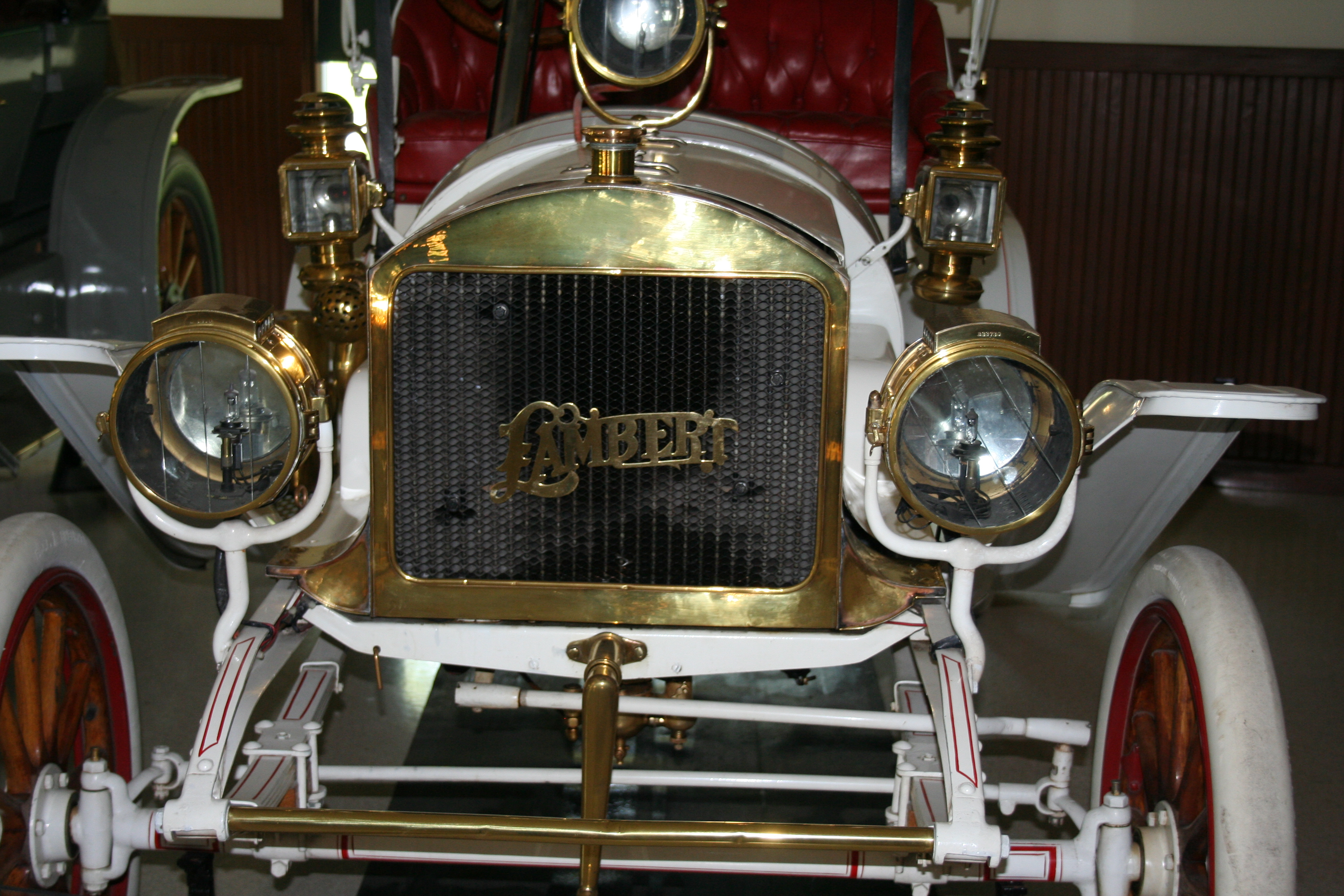 Description = Lambert automobile - very rare, possible only 4 exists.